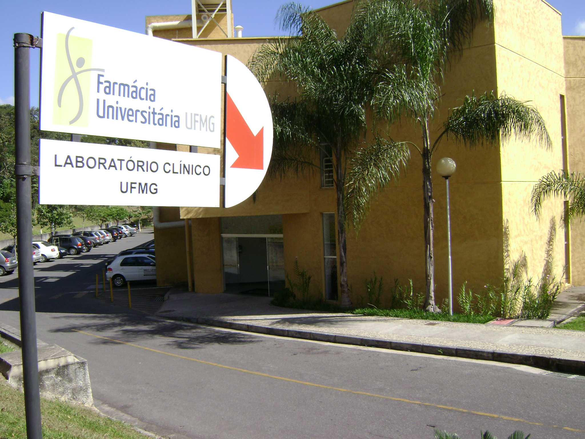 Faculdade de farmácia da UFMG.